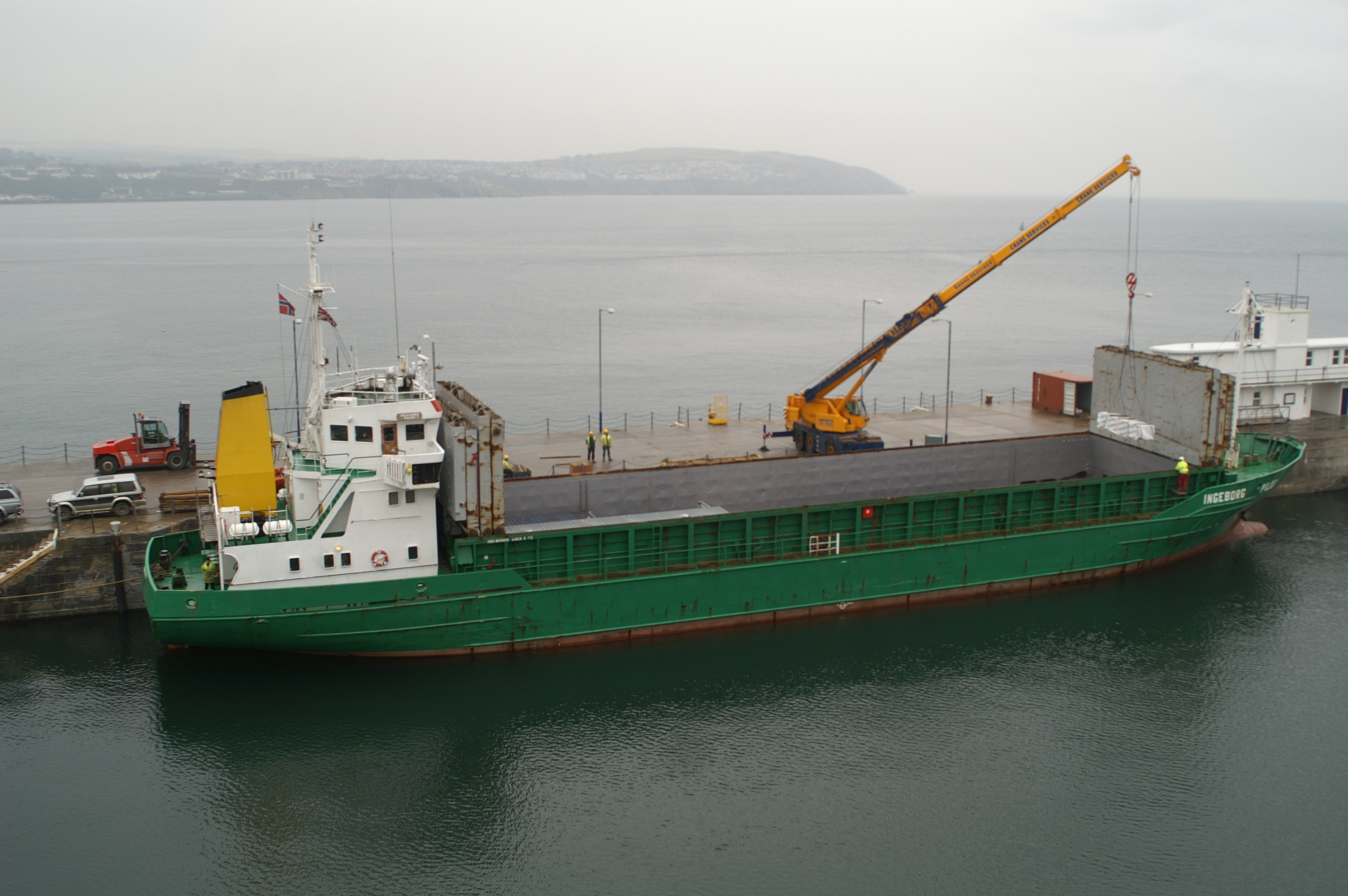 Unloading timber from the INGEBORG PILOT at Douglas